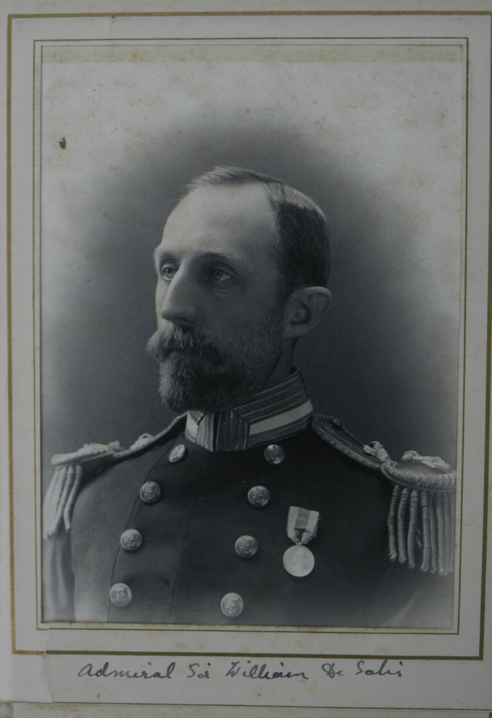 My digital photo (R. de SalisRodolph (talk) 12:01, 30 May 2014 (UTC)) of a formal presentation cabinet photograph of Sir William Fane de Salis, RN, (1858-1939), wearing one medal, as a Captain, circa 1900.